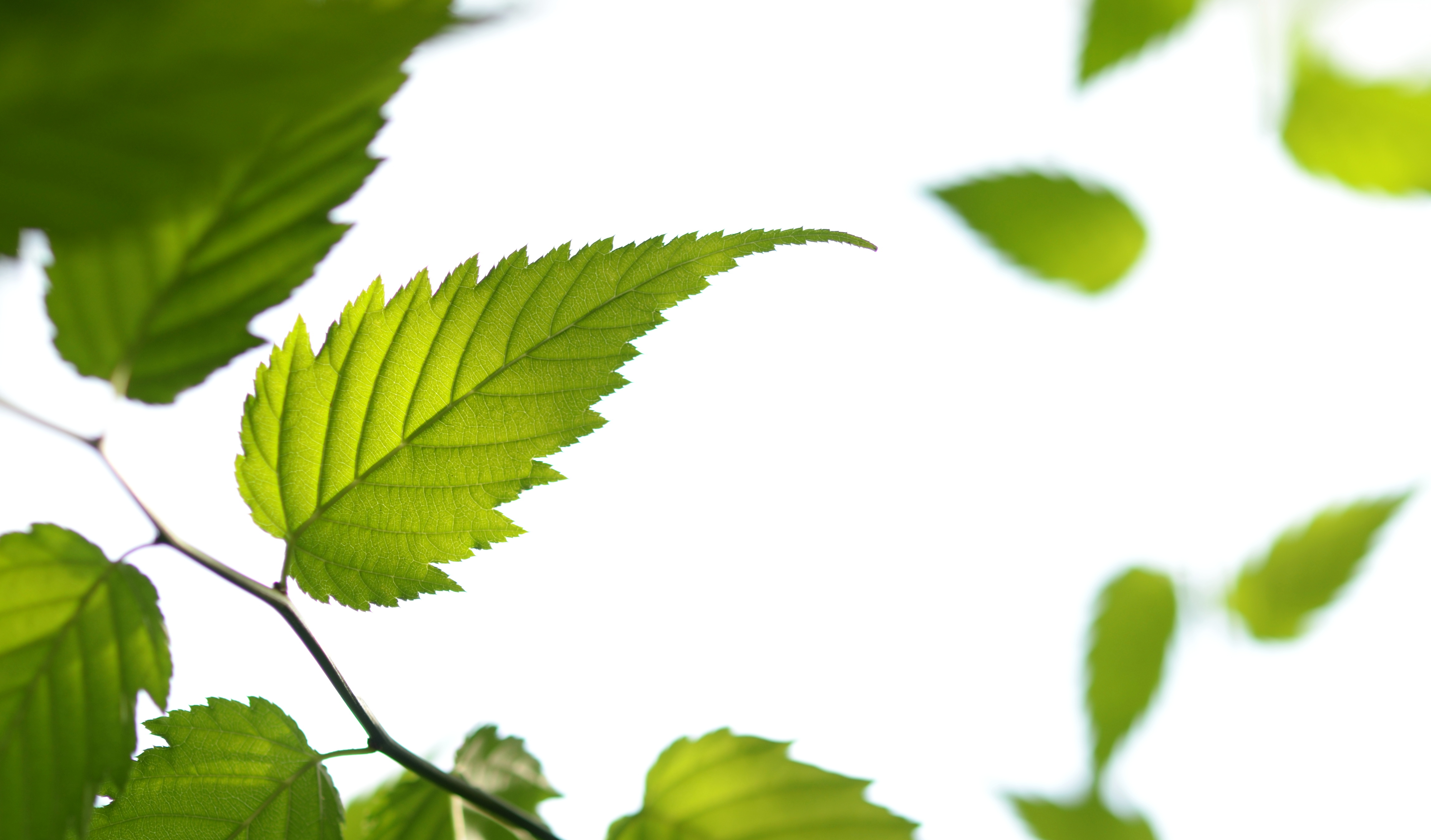 Leaf of the Kerria japonica. Well visible the leaf veins running directly to the leaf tips.